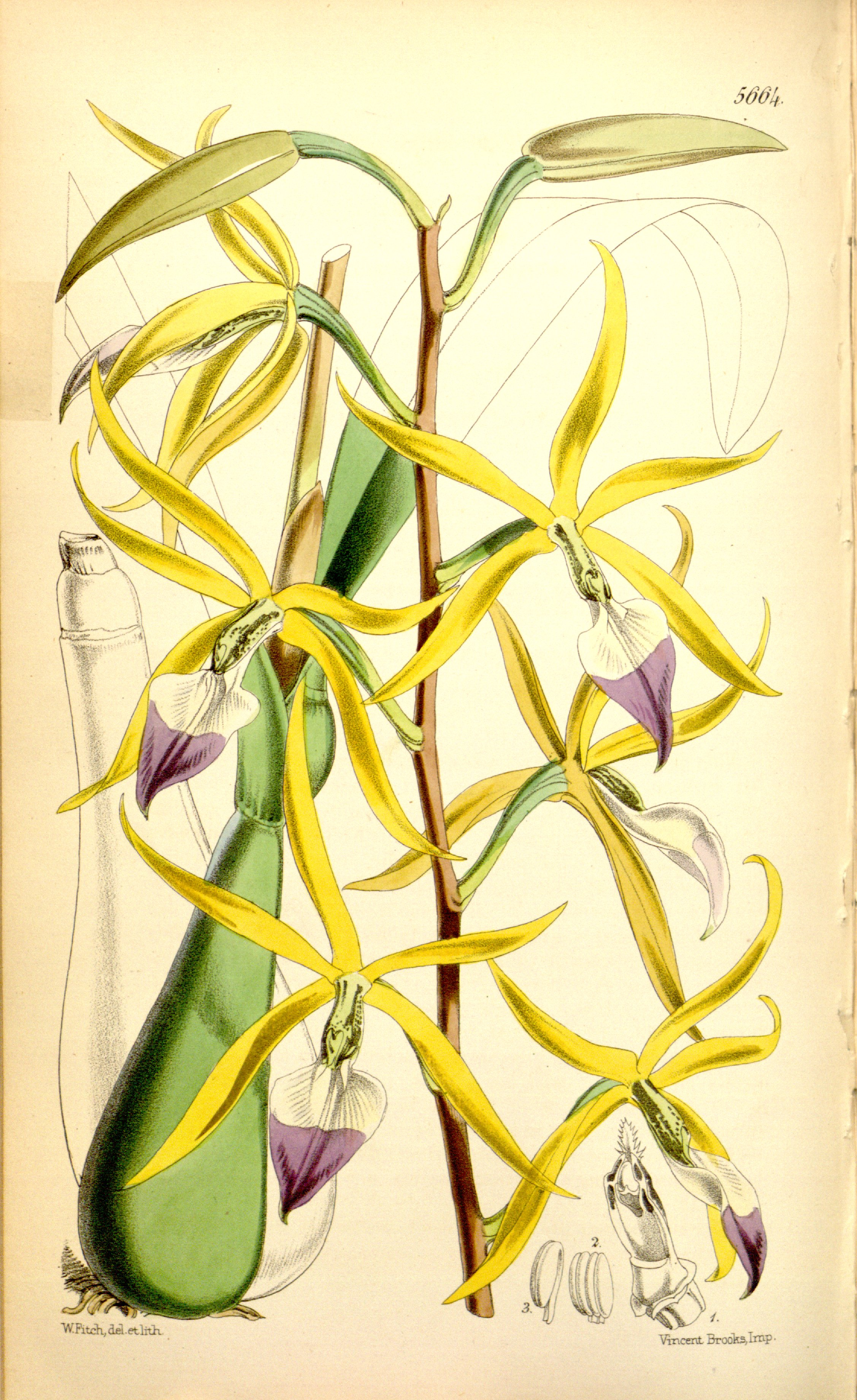 Illustration of Prosthechea brassavolae or Panarica brassavolae (as syn. Epidendrum brassavolae)